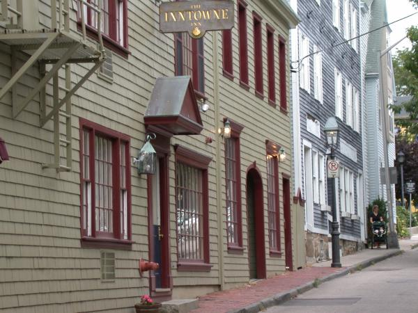 Newport, Rhode Island, Mary St, viewed from Thames St. Showing the Inntowne Inn, now operating as America's Cup Inn.